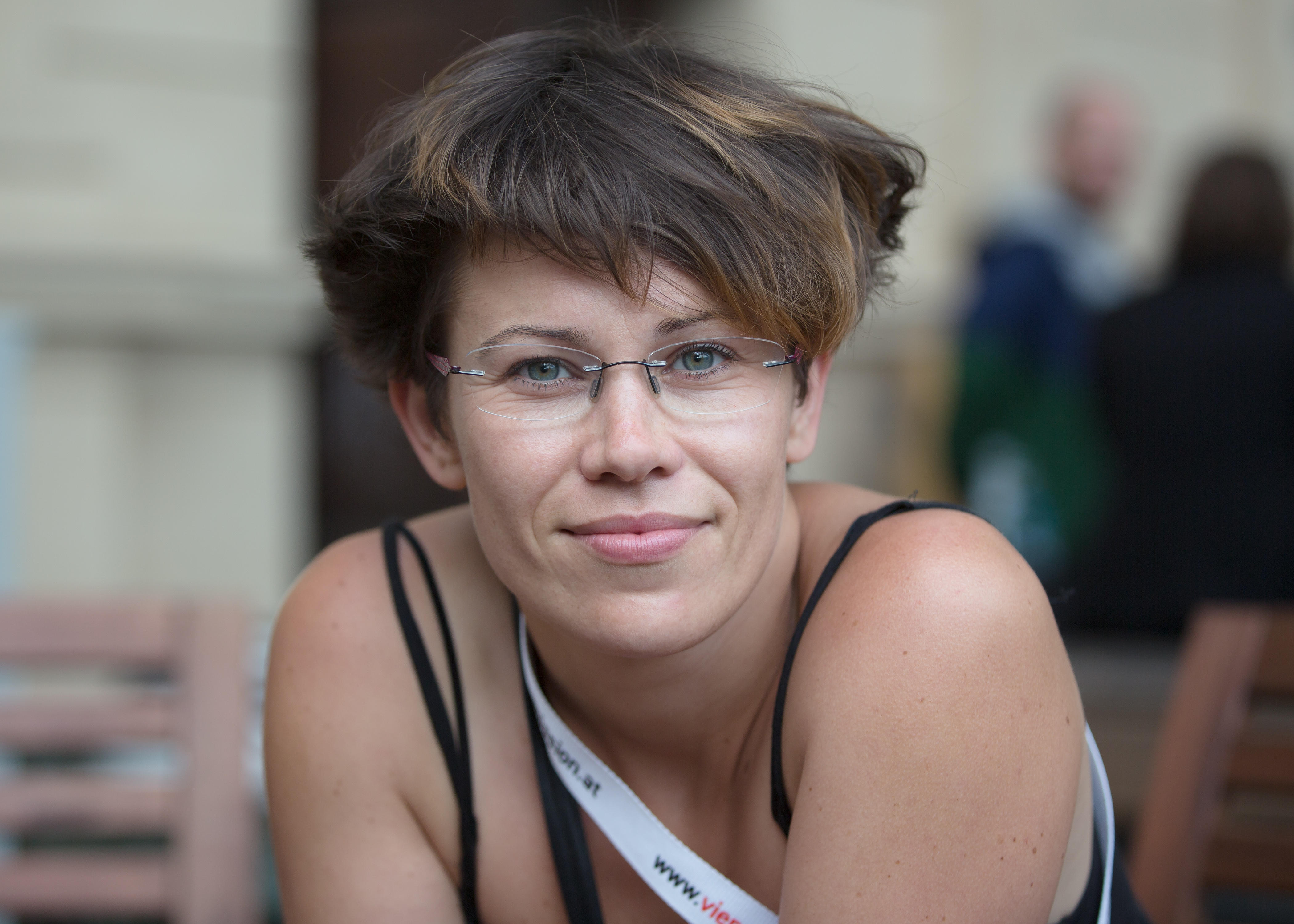 Filmmaker and author Katarzyna Gondek at Vienna Independent Shorts 2016 (Künstlerhaus, Vienna, Austria).